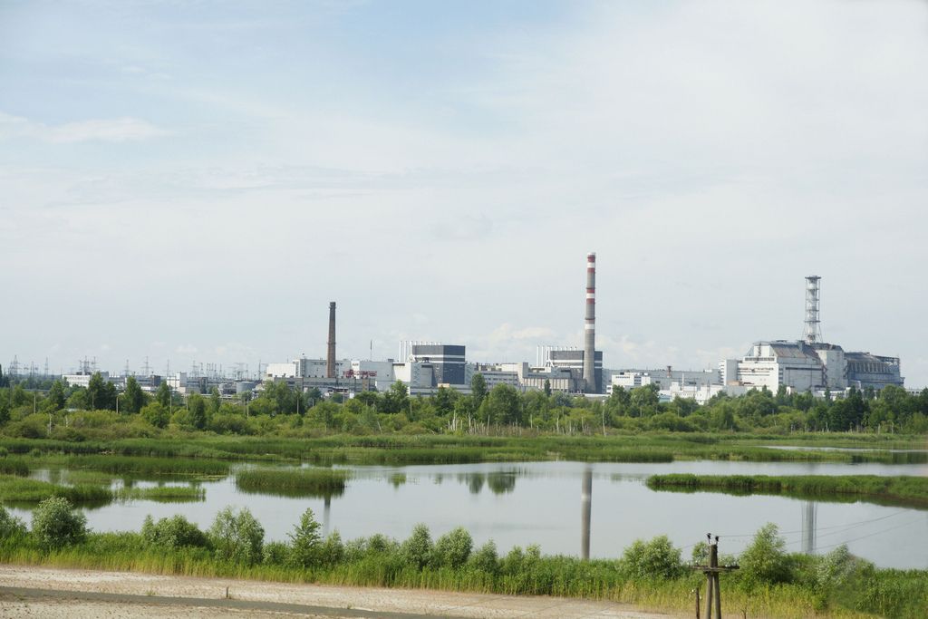 Chernobyl NPP Units 1 to 4 and the Substation Complex – view from track to Semichody Station